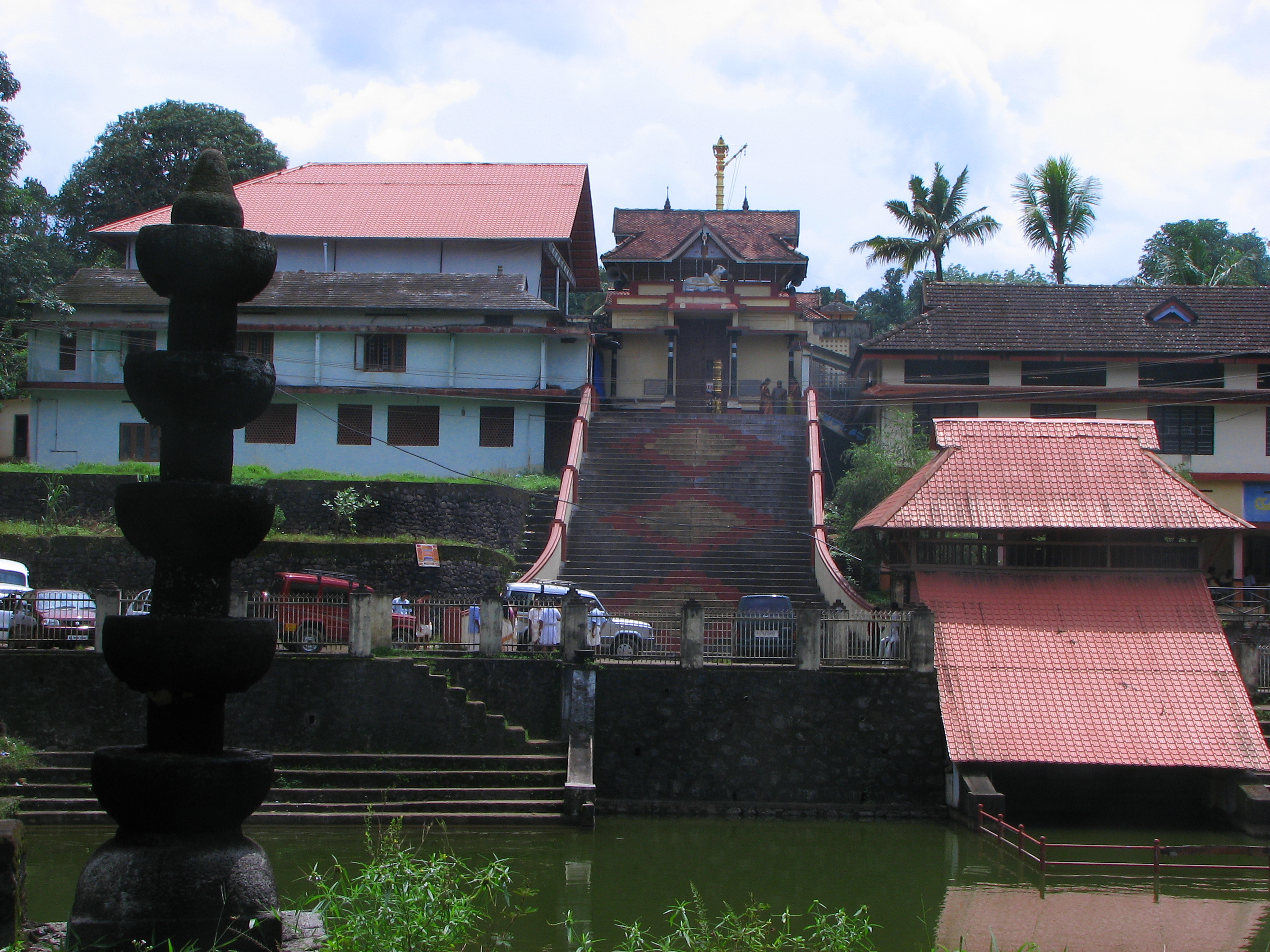 Chirakkadavu Mahadeva Temple, eastern entrance